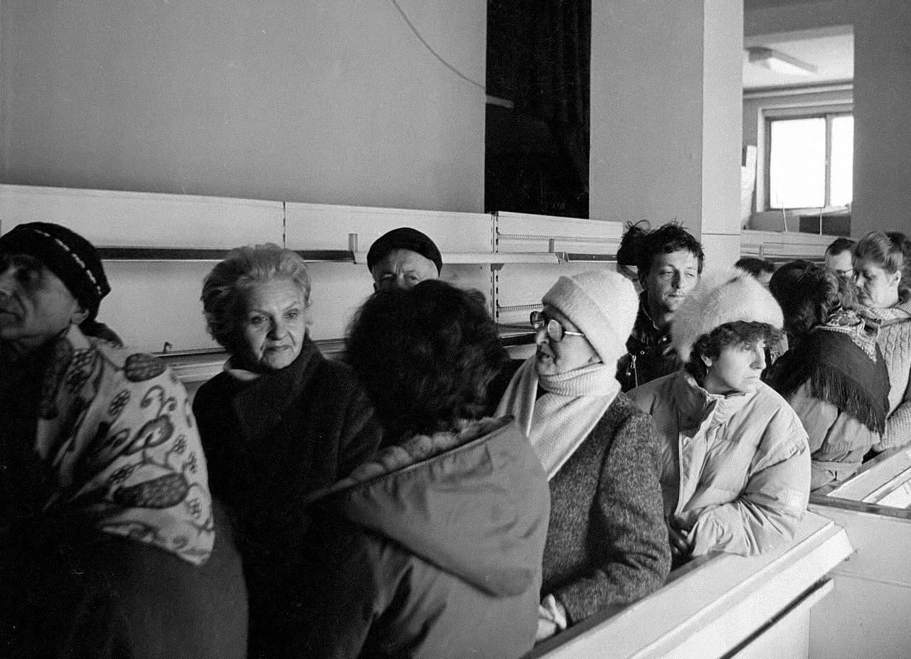 Sarajevo life under siege, winter of 1992-1993. Residents of the Baščaršija (Sarajevo old town) district wait to receive rations from a UNHCR humanitarian aid delivery, their first in 40 days: one K-ration meal per person, one kilo each of powdered milk, rice and flour, half a kilo each of sugar, two 200g cans of fish and meat, half a litre of rapeseed oil, 200g of detergent. Interval to next delivery: unknown. Christian Maréchal photo